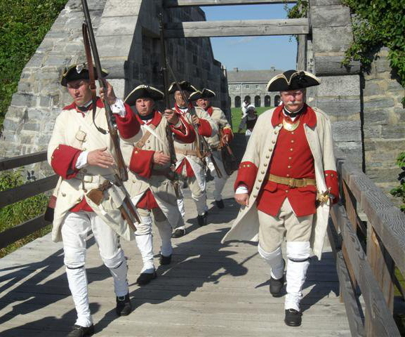 Régiment of Béarn at the Quebec Citadelle